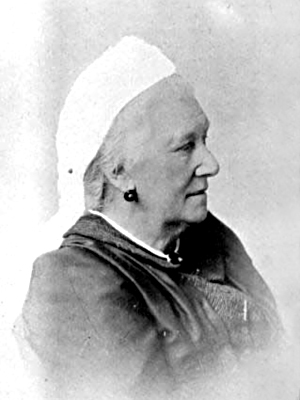 Mary Ann Müller, was teacher, suffragette, and one of the first feminists in New Zealand.